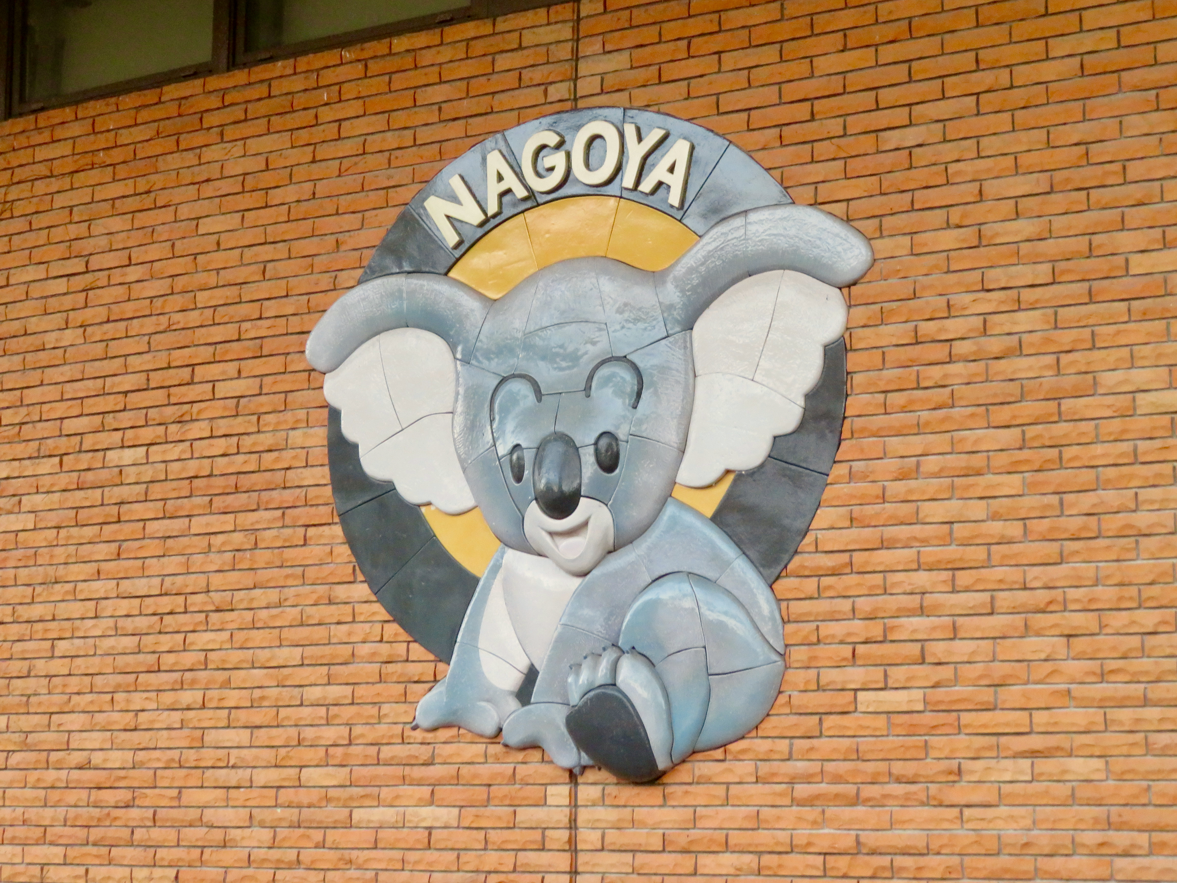 Illustration of a koala on the wall of the koala exhibit at the Higashiyama Zoo and Botanical Gardens. The original design was created by Akira Toriyama.